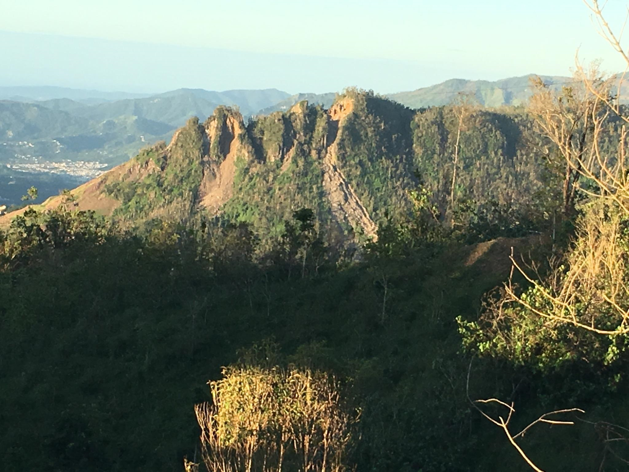 Mountain melted down due to winds combined with heavy rain in Villalba.